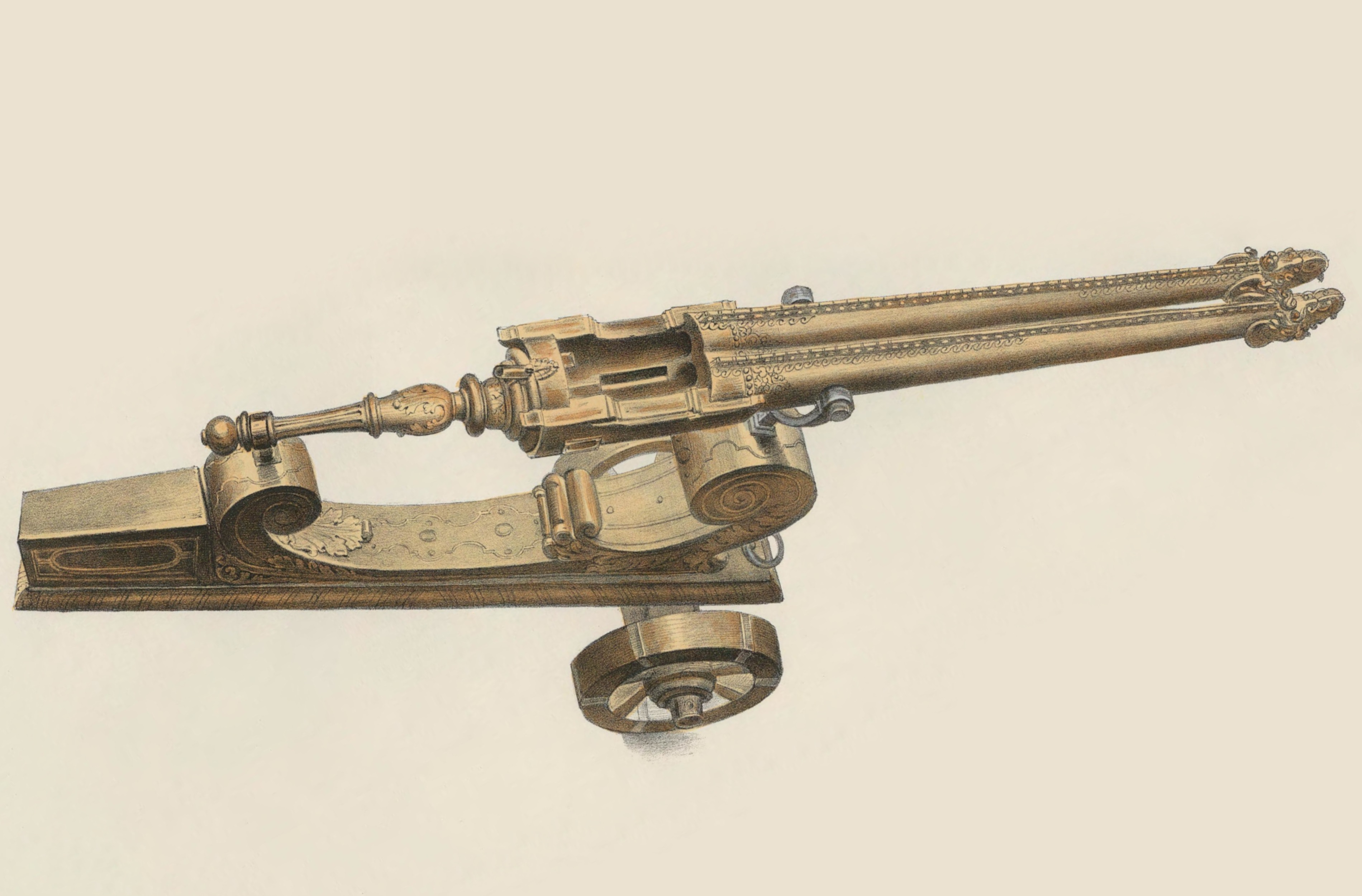 An East Indian (precisely Javanese) cannon, ca. 1522, from the gallery of ancient weapons of Madrid. This image has been edited to delete other weapons next to it.The original image is from La Armeria Real ou collection des principales pieces de la galerie darmes anciennes de Madrid; Vol. III.